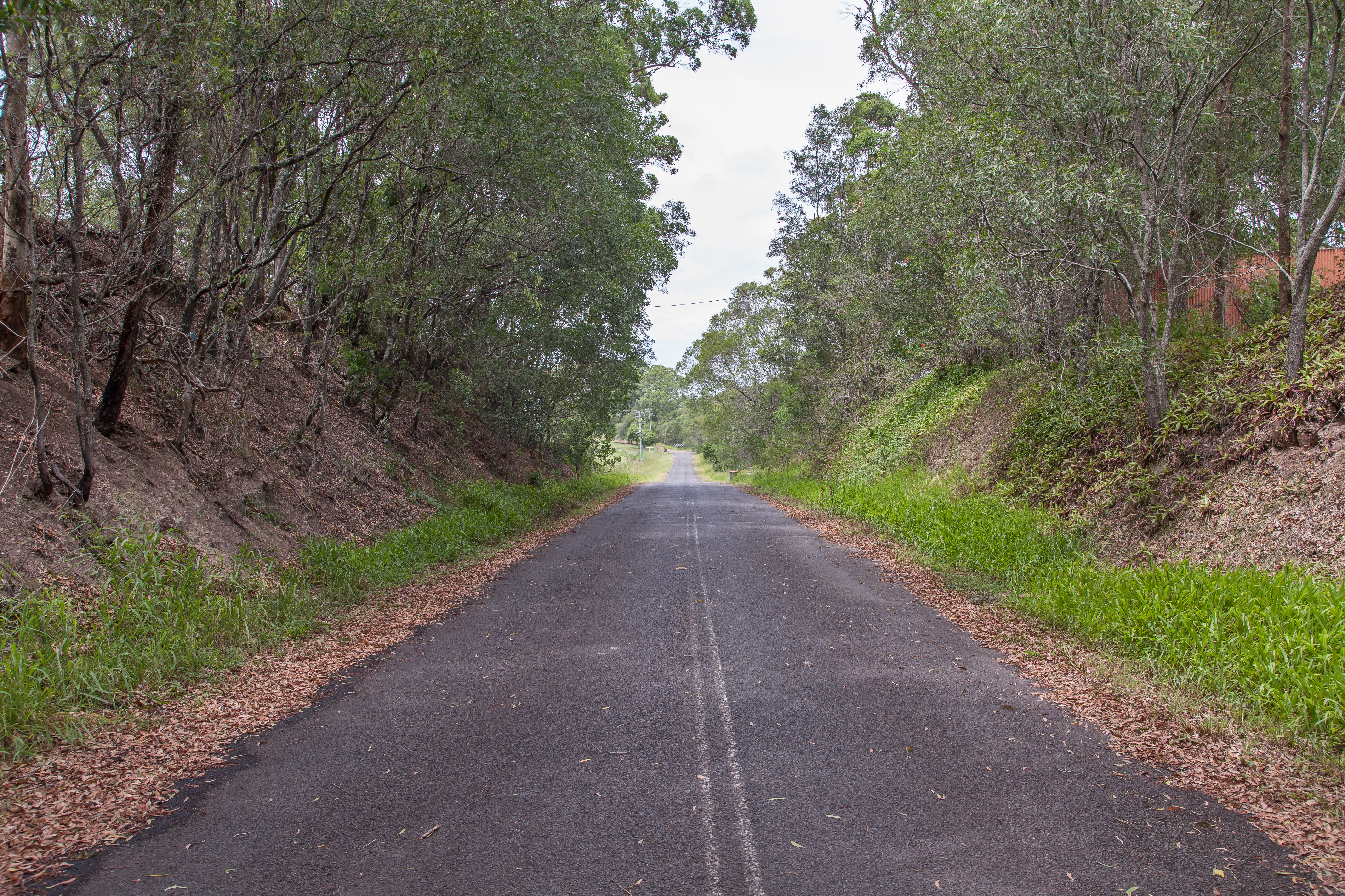 The southern end of the "Old Pacific Hwy" in Woombah.